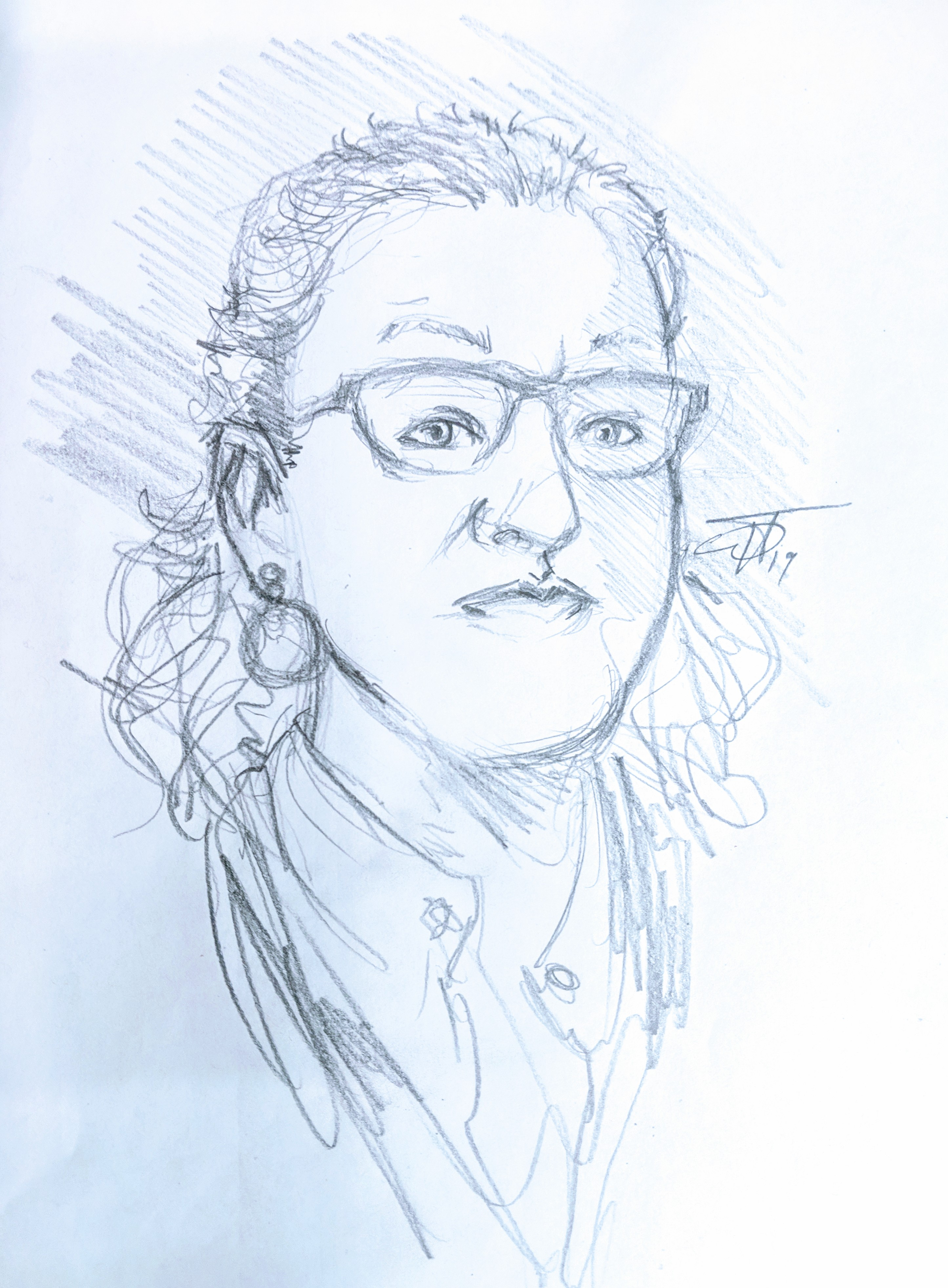 Portrait Jenny Davis